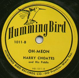 Humming Bird Record label,From record by Harry Choates.